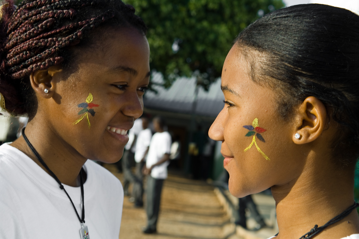 Girls from the Star for Life-programme